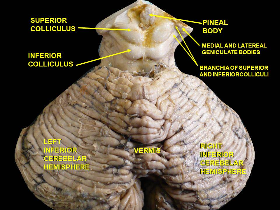 Anatomical dissection